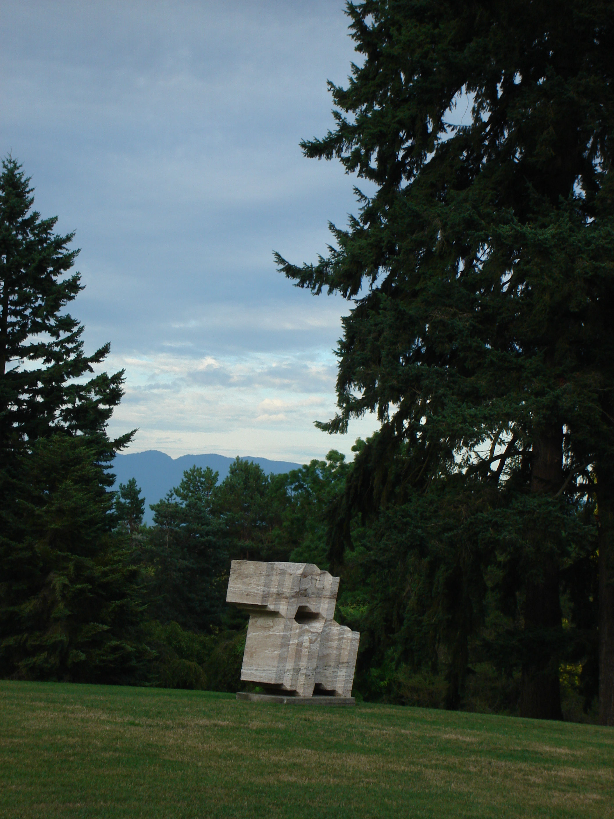 Sculpture For the botanical garden (1975) by Hiromi Akiyama in VanDusen Botanical Garden in Vancouver/Canada